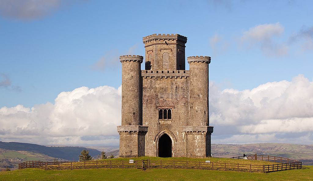 Paxton's Tower (National Trust) is a Neo-Gothic folly / an eyecatcher and banqueting hall / also known as The Nelson Monument / erected by William Paxton in 1806-1809 in honour of Admiral Lord Nelson - killed at the Battle of Trafalgar in 1805. It is a triangular building with a hexagonal castellated roof. On the ground there are three arches to accommodate carriages , with an upper apartment with stained glass windows showing Lord Nelson and scenes from his life. Its hilltop location provides Spectacular views over the Towy (Tywi) valley. William Paxton (1745-1824) spent the fortune he had made in India building a huge neo-classical house Middleton Hall and laying out a park / the hall was destroyed by fire in 1931 / The " National Botanic Garden of Wales" is built on Paxtons Middleton Estate / Leading to the Tower is Paxton's Tower Lodge ( Landmark Trust ) / an early 19C cottage, built for the Tower’s caretaker / SN 541.190 / 7975